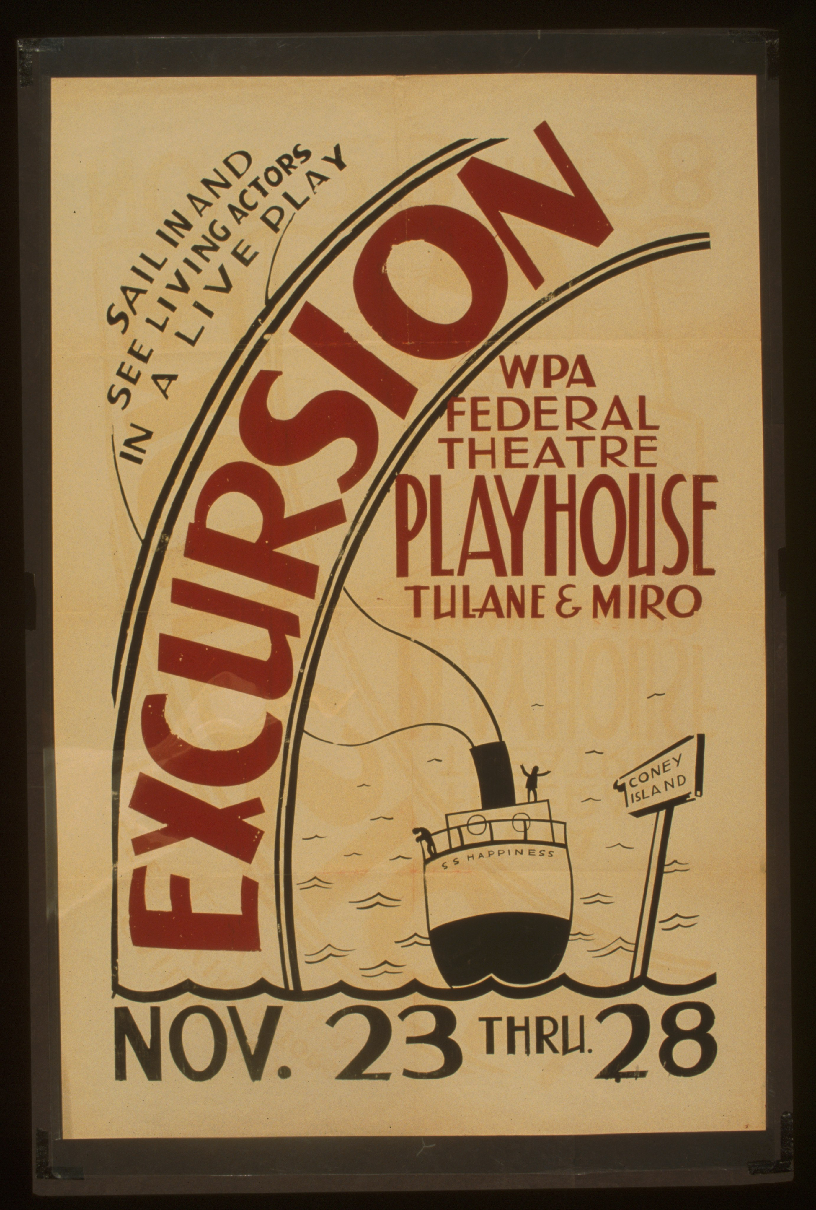 Title: "Excursion" WPA Federal Theatre Playhouse, Tulane & Miro Abstract: Poster for Federal Theatre Project presentation of "Excursion" at the WPA Federal Theatre Playhouse, Tulane & Miro, Los Angeles, Calif., showing a ship "SS Happiness" sailing towards Coney Island. Physical description: 1 print (poster) : silkscreen, color. Notes: Work Projects Administration Poster Collection (Library of Congress).